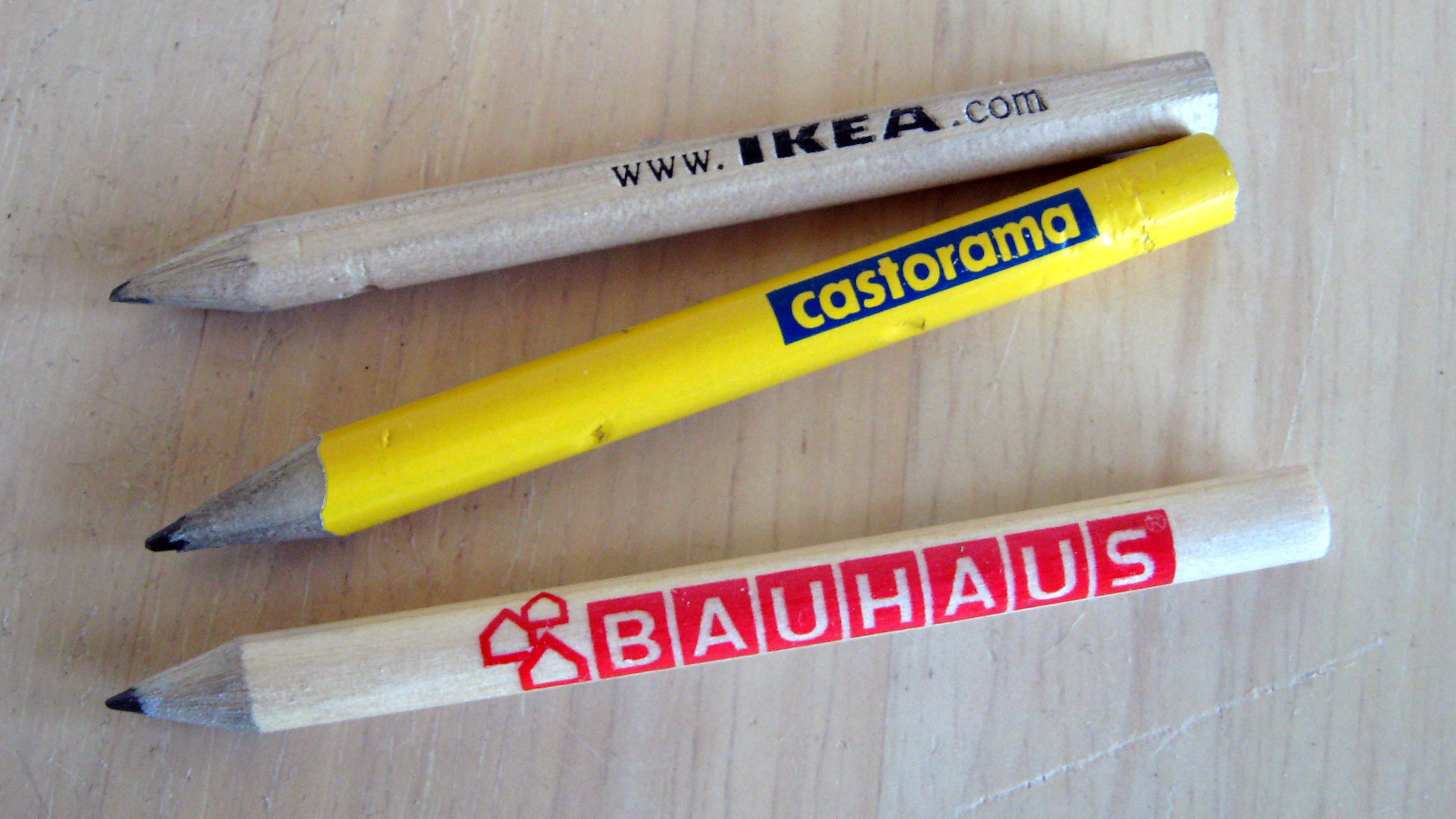 3 promotional pencils: IKEA, Castorama, Bauhaus